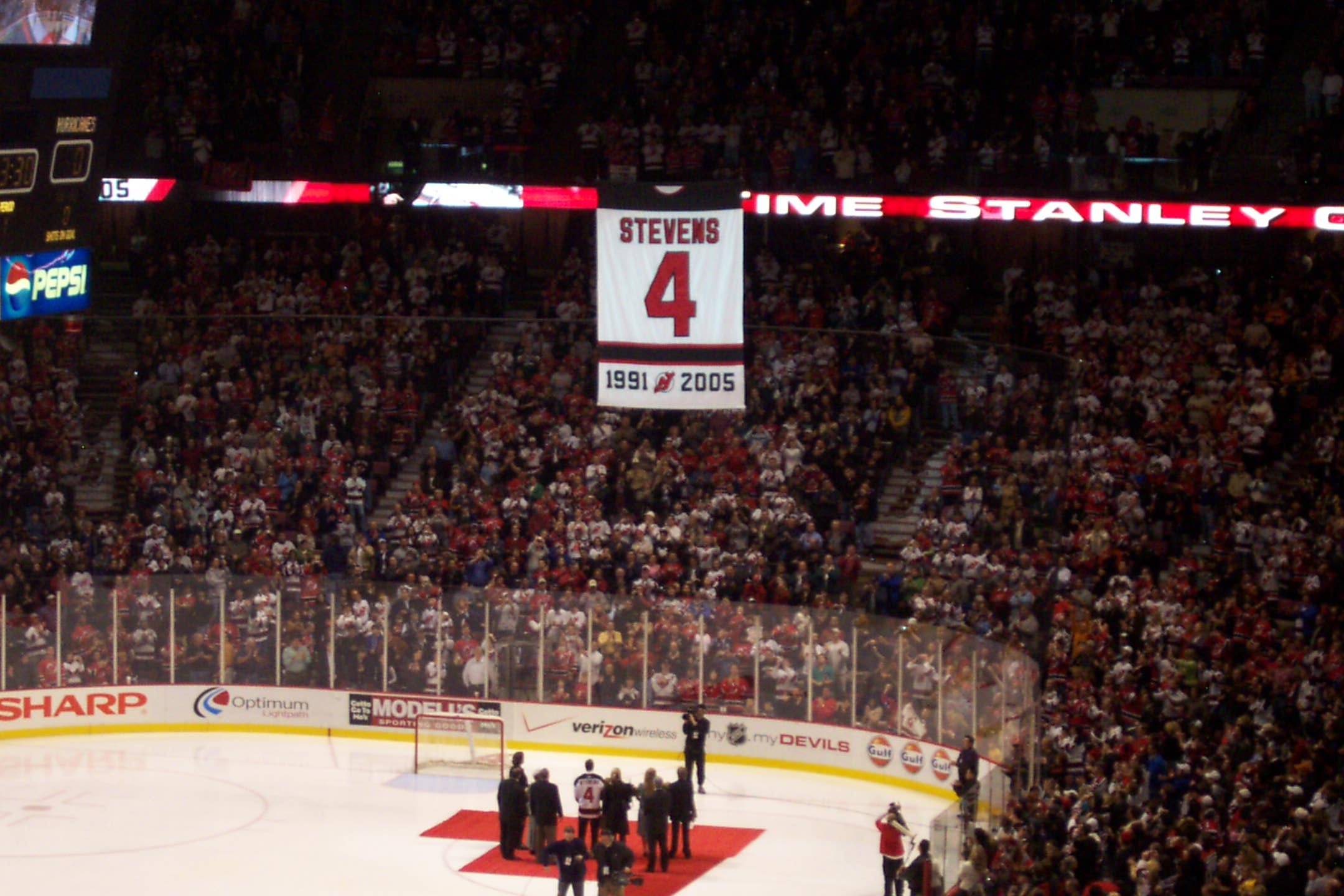 Stevens' retirement ceremony - Feb. 3,2006.